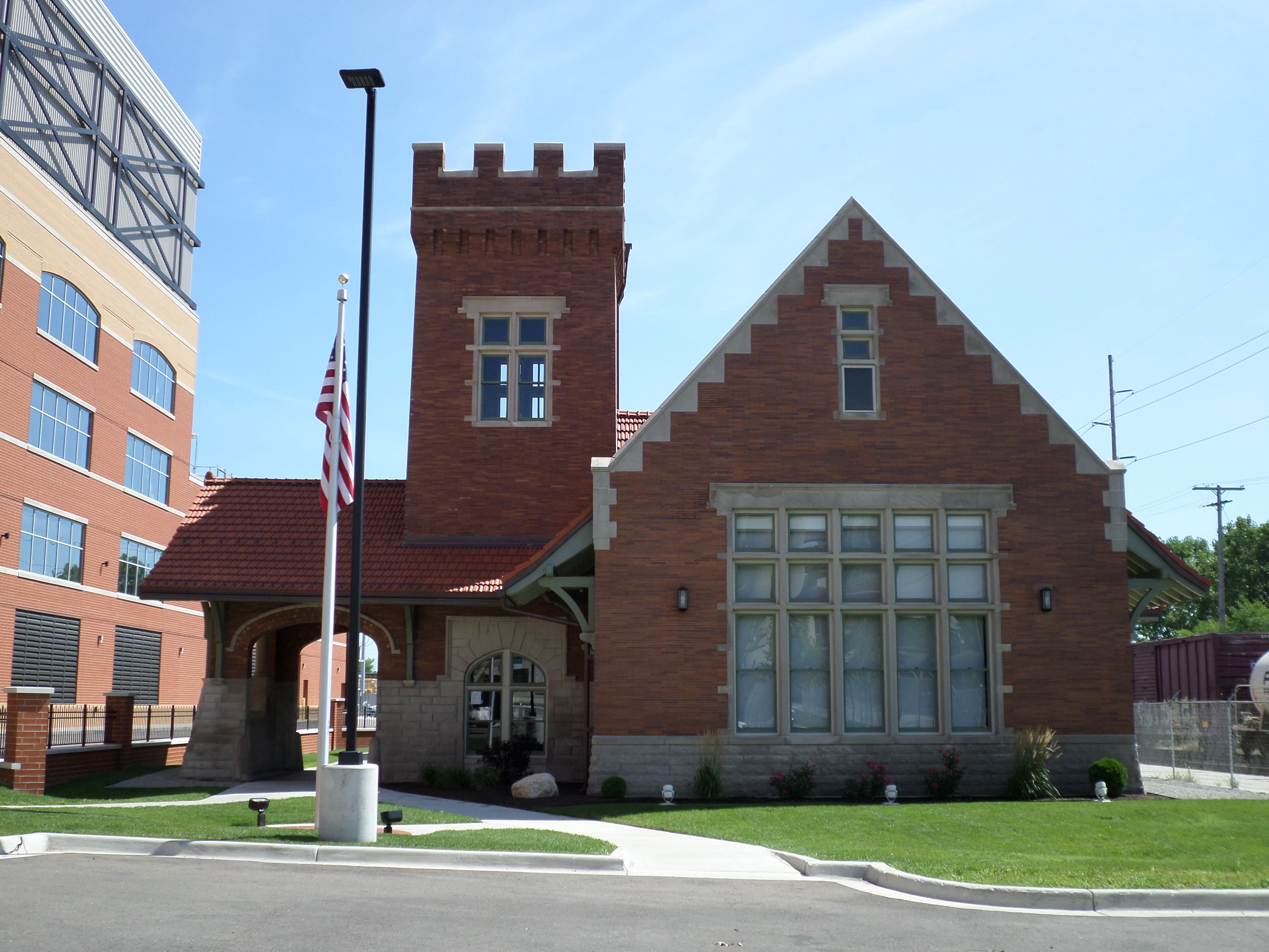 The Grand Trunk Western Rail Station/Lansing Depot, now known as the REO Town Depot, located at 1203 S. Washington Ave., Lansing, MI.